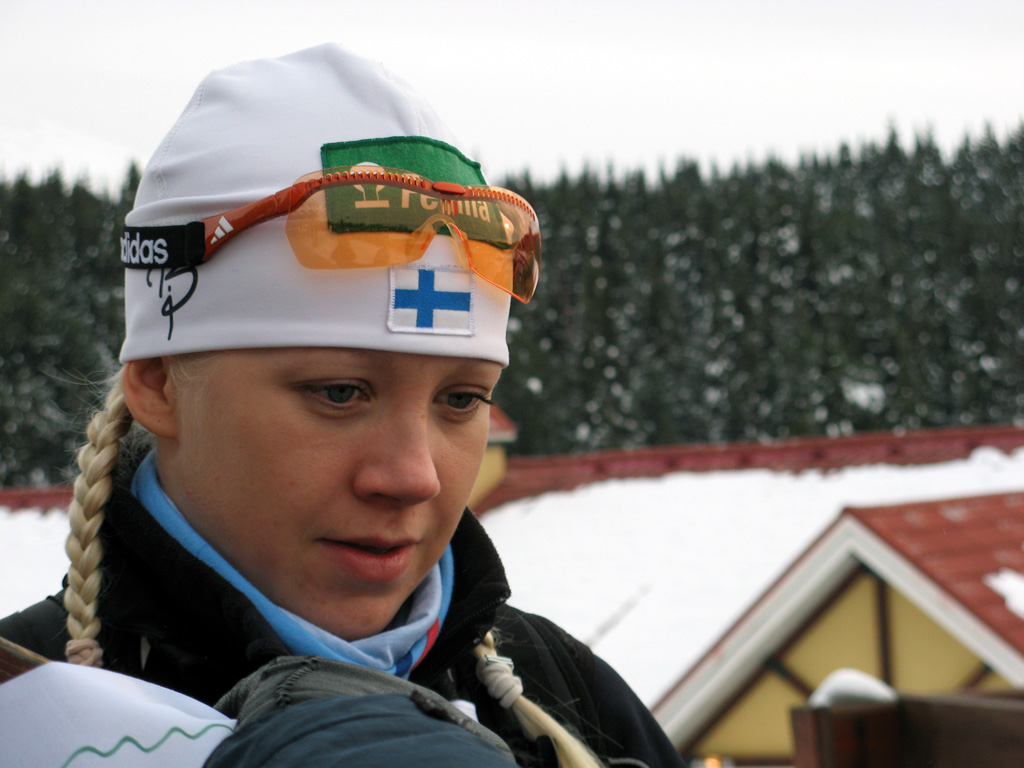 Kaisa Mäkäräinen in Khanty-Mansiysk after mass-start on 18 March 2007